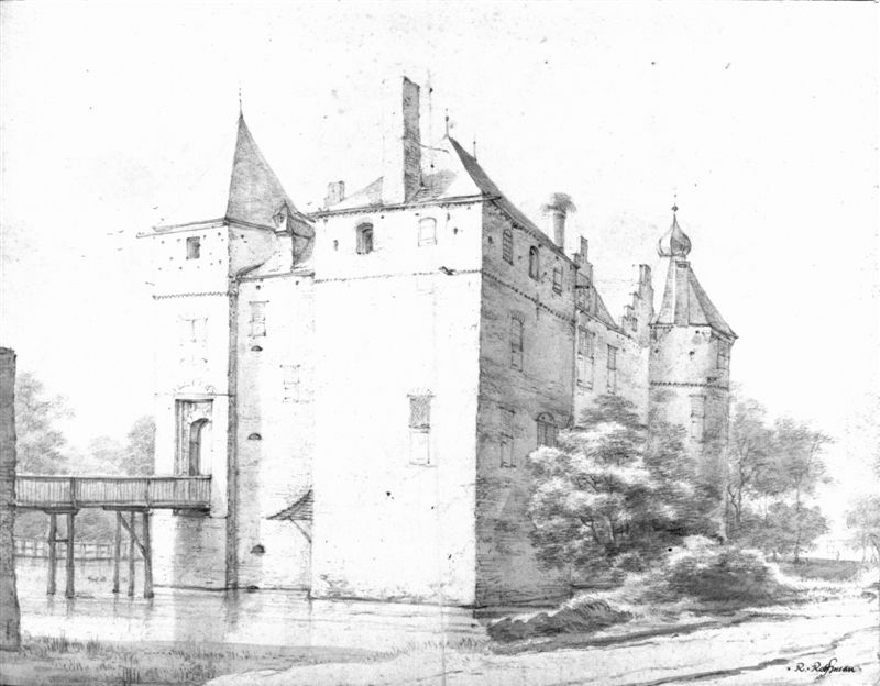 Castle Gunterstein, Breukelen, Netherlands, 1646/47 drawing by Roelant Roghman